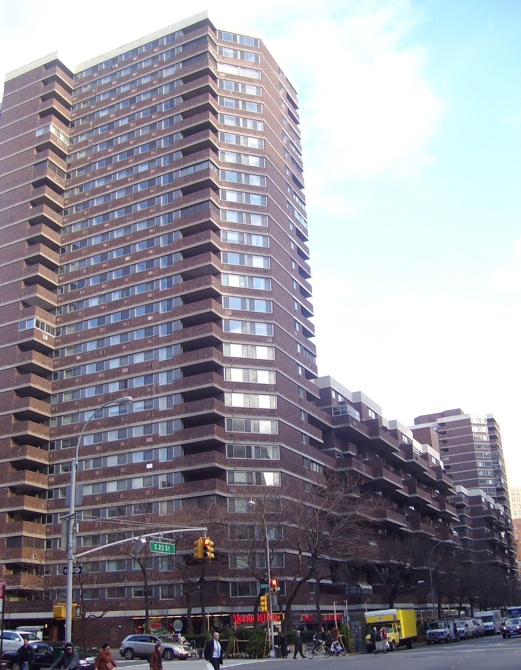 East Midtown Plaza, located between First and Second Avenues and between Eaat 23rd and 25th Streets in the Kips Bay neighborhood of Manhattan, New York City, was built in 1972-74 and was designed by Davis, Brody & Assocs. The complex has been called "Powerful, with great style, rather than stylish." (Source: AIA Guide to NYC (5th ed))